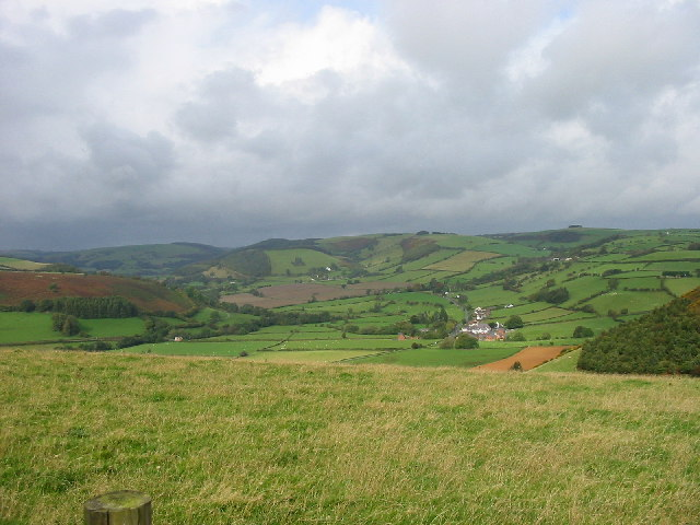 Whitton. Taken from the hillside above and to the east of the village